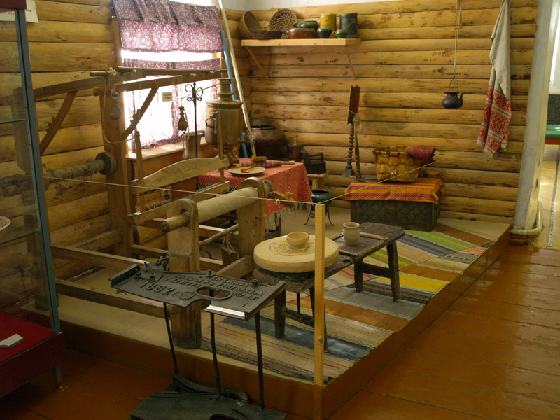 Museum Study of local lore.